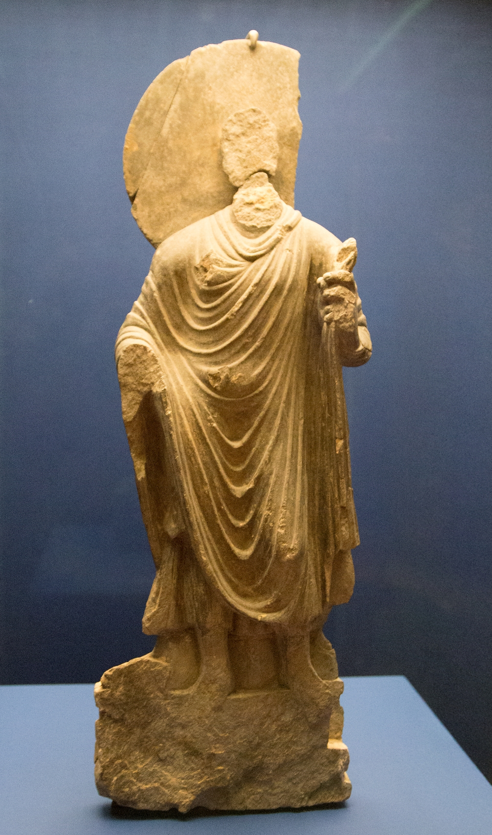 Statue of standing bodhisattva. Schist. Mes Aynak, 3rd-6th century CE.